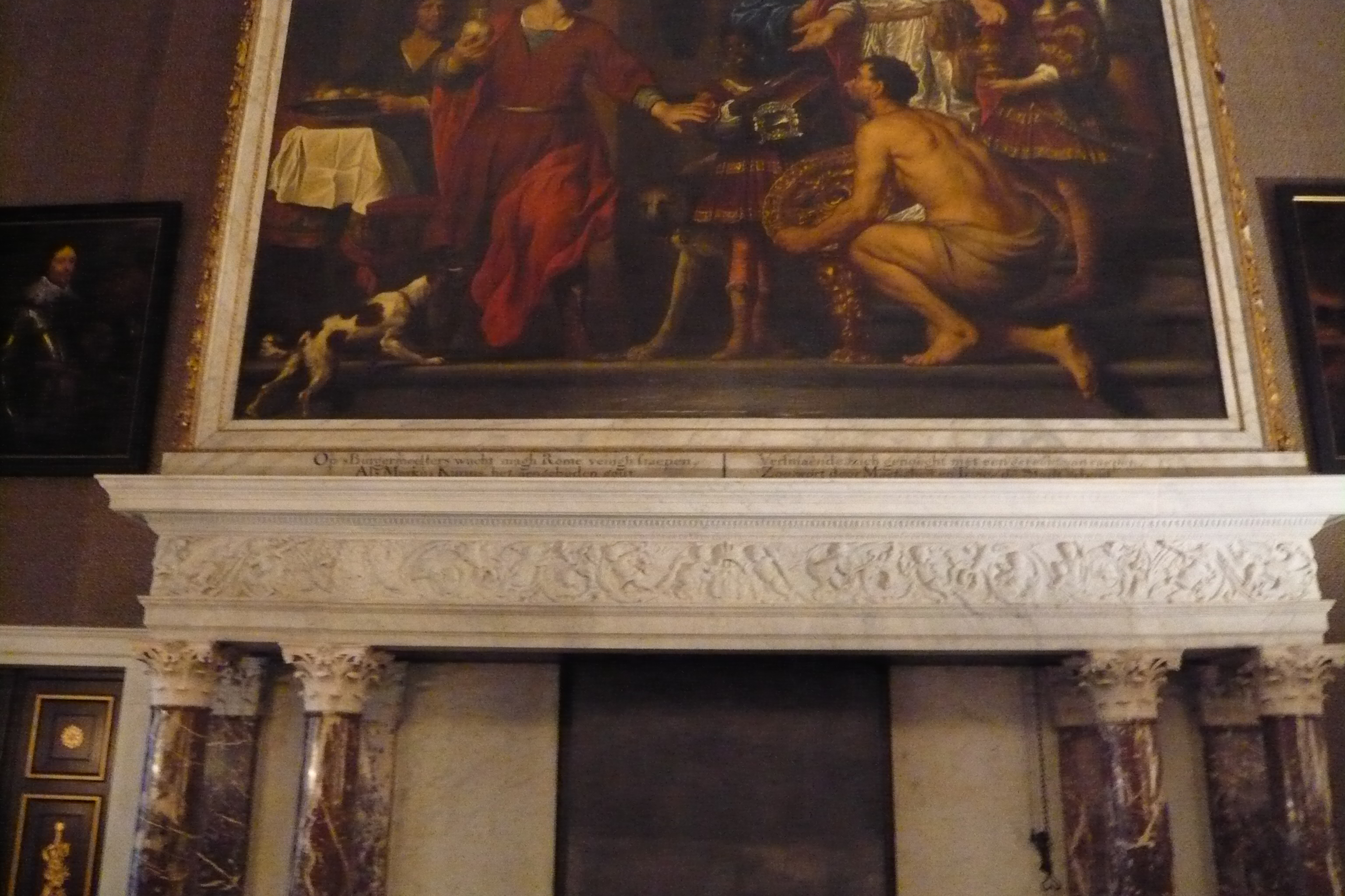 Interior of the Mayors' room overlooking Dam Square in the Royal Palace of Amsterdam. Two marble hearths by Quellinus; Chimneypiece overmantel paintings by Ferdinand Bol and Govert Flinck.